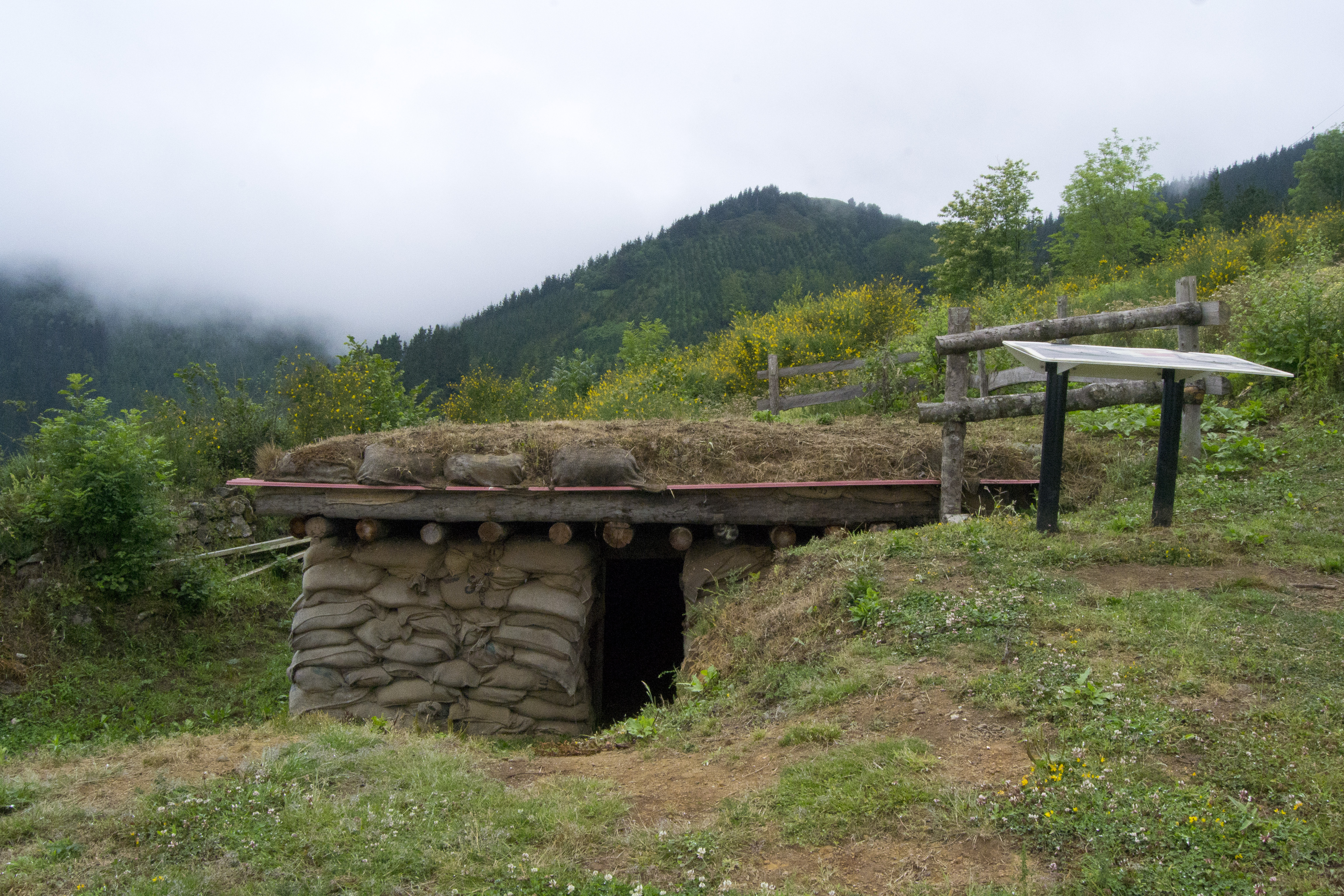 Intxorta Battle's Historic Site (1936-1937). Intxorta, Elgeta. Gipuzkoa, Basque Country.